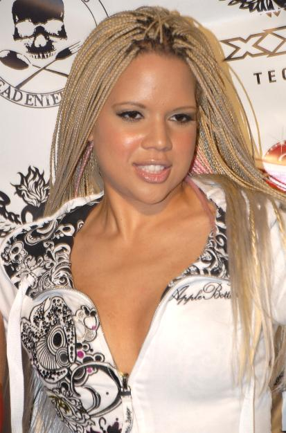 American pornographic actress Velvet Rose